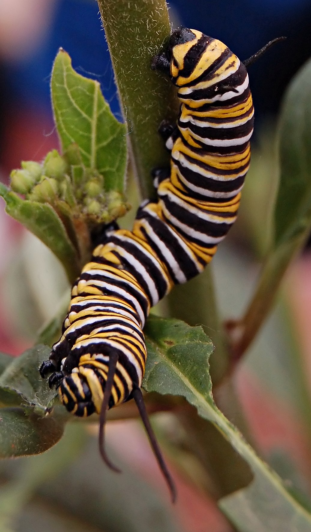 Monarch Butterfly Caterpillar. Shot in Auckland, New Zealand